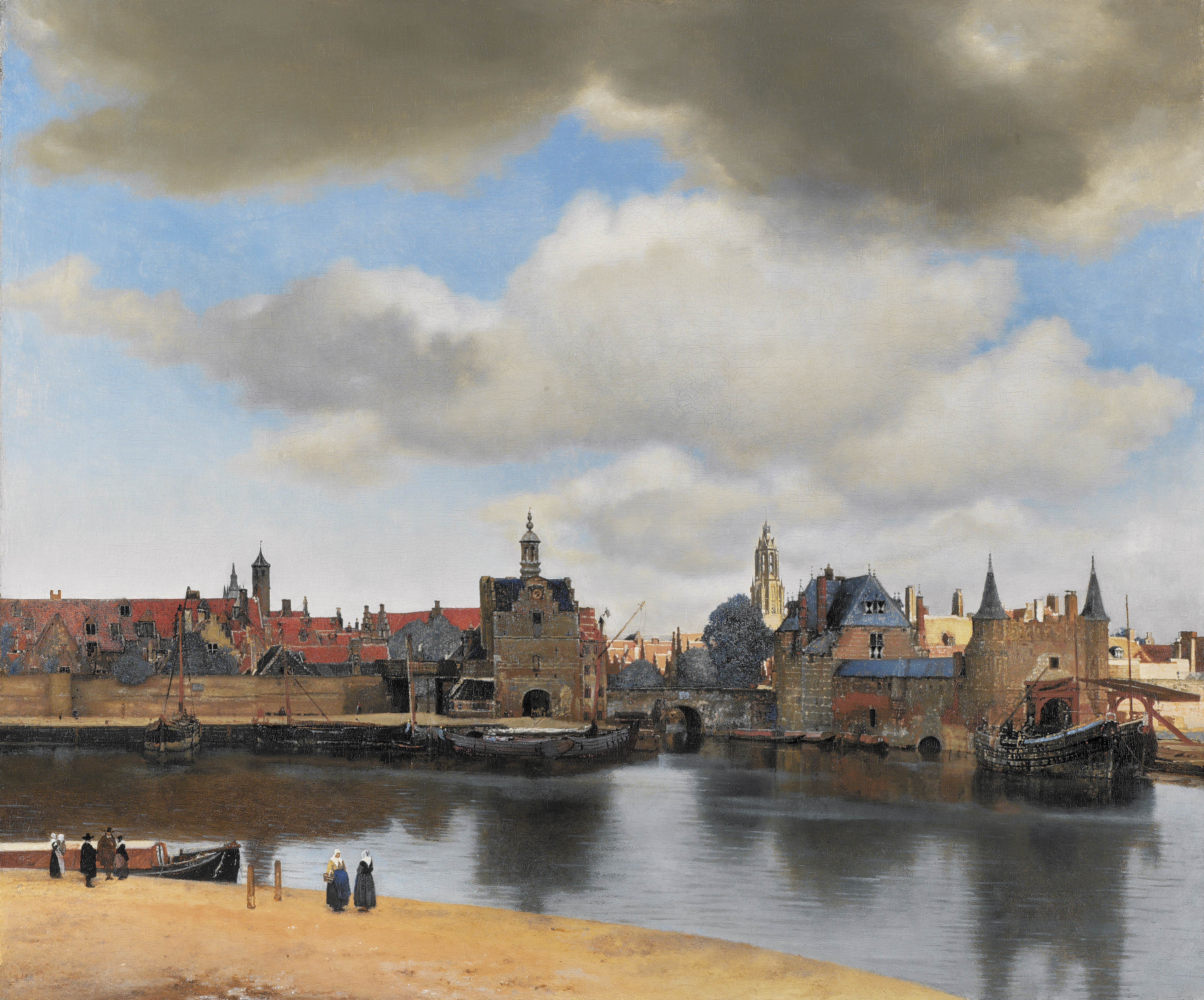 View of Delft oil on canvas 96.5 x 115.7 cm signed b.l.: IVM 1660 - 1661